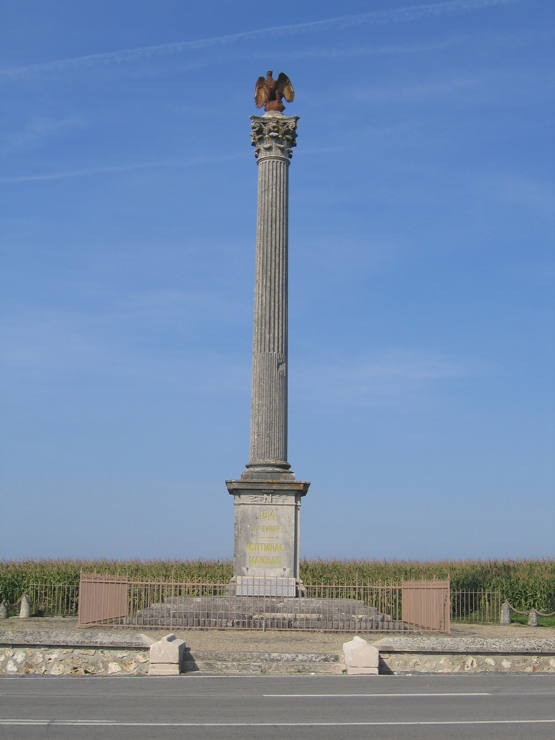 This is a picture of the memorial column of Napoleon victories in Montmirail (Marne), Vauchamps (Marne) and Champaubert (Marne). The column is located in Montmirail (Marne). .